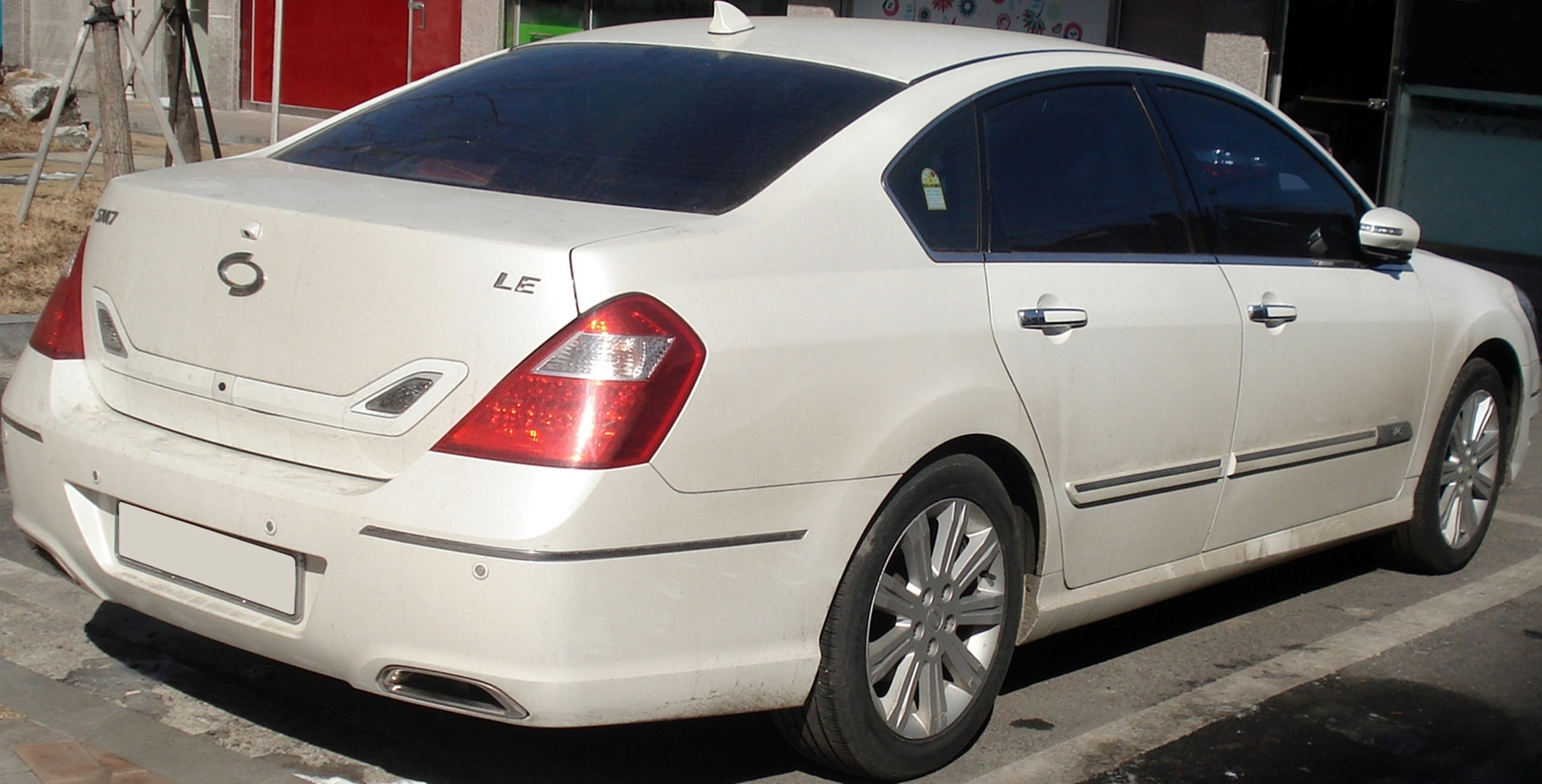 Renault Samsung SM7 New Art